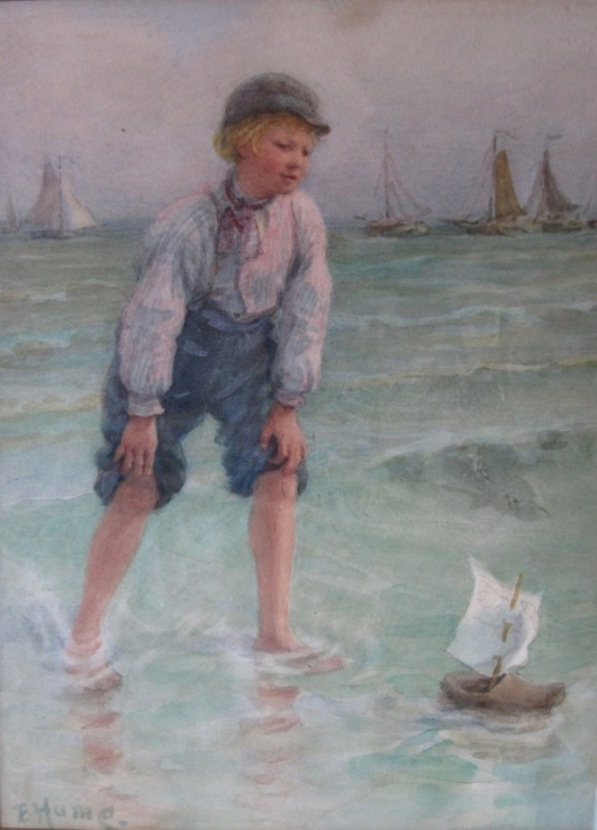 Dads Voat by Edith Dunn (born 1841) from Truro in the 19th century, Edith’s sister was a Professor of Music and her brother Henry Treffry Dunn a Pre Raphaelite assistant